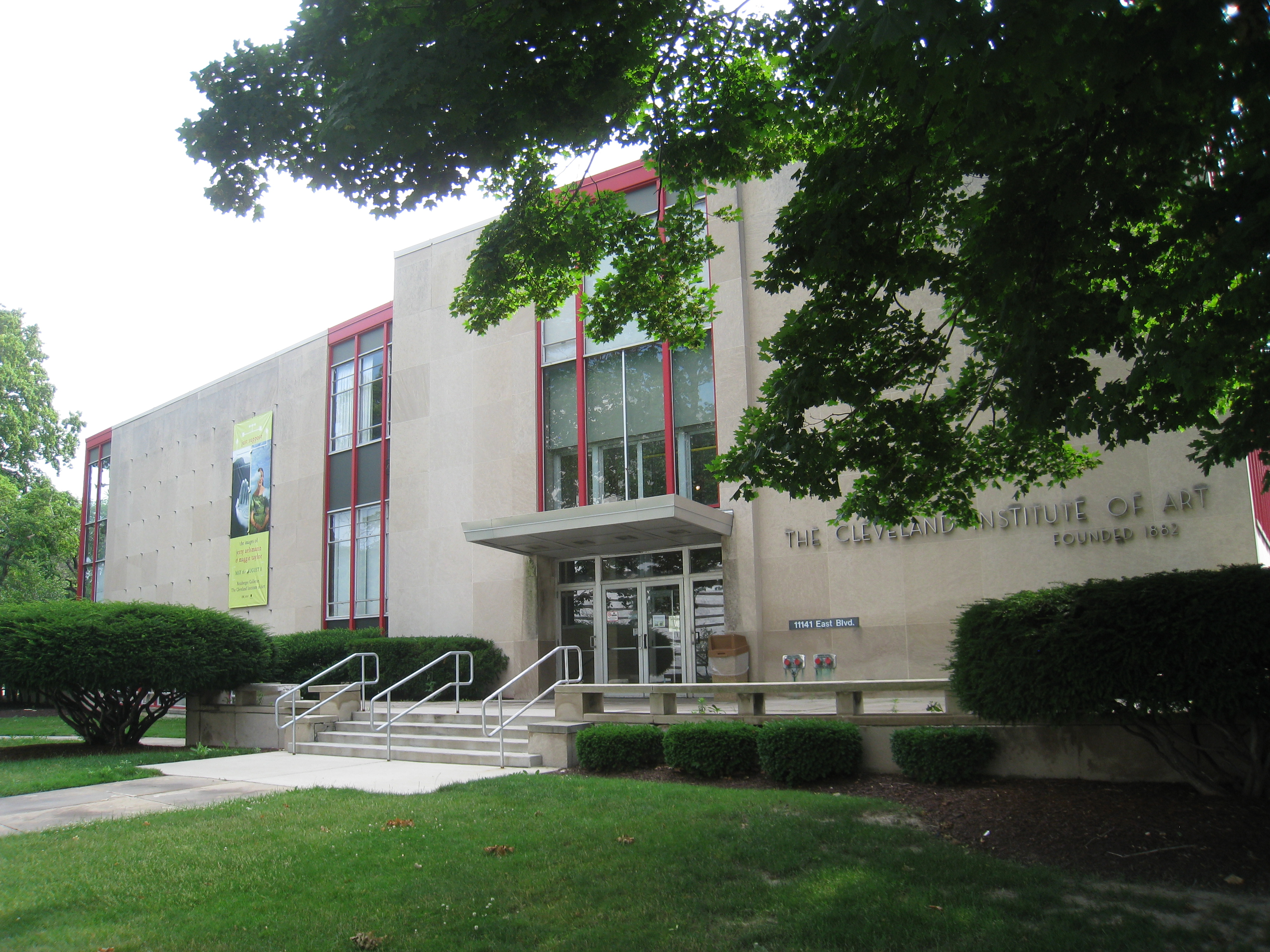 Entrance - Cleveland Institute of Art, Cleveland, Ohio, USA.